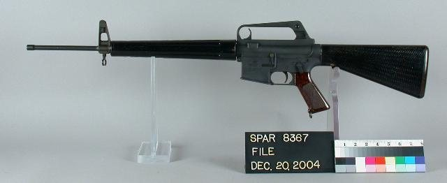 ArmaLite AR-15 left side without flash hider or magazine